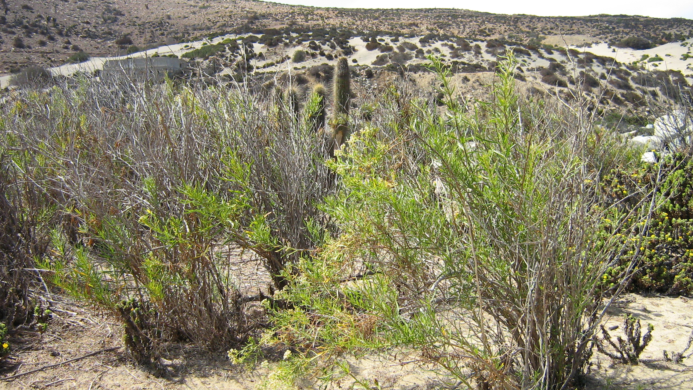 Typical vegetation in The Cebada